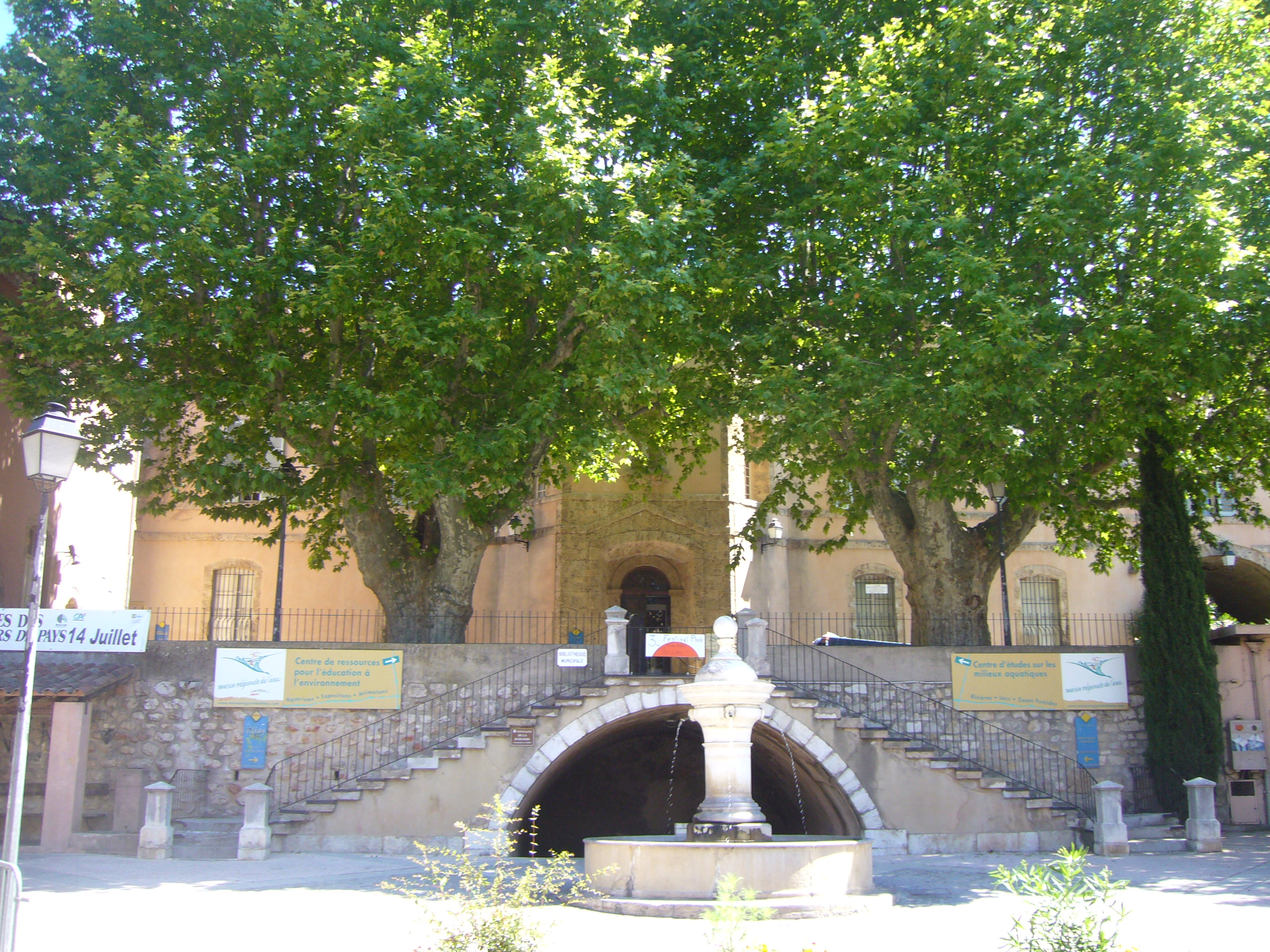 "La Maison Régionale de l’Eau", localized in Barjols, Var, France.